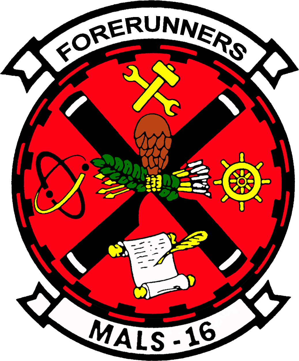 Squadron insignia for MALS-16